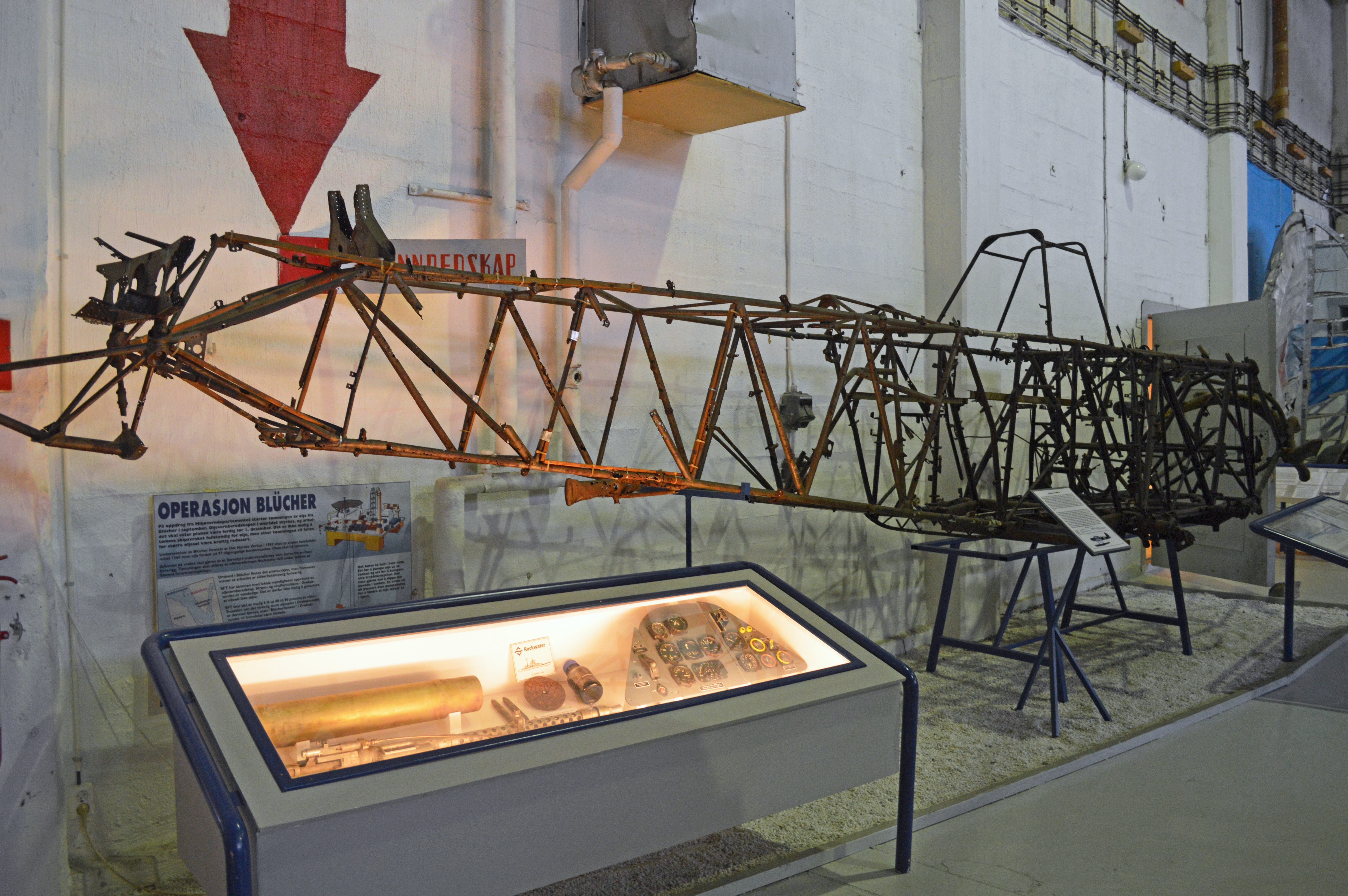 c/n unknown. This was one of two Ar 196 aircraft aboard the German Cruiser 'Blücher' when it lead the invasion force heading for Olso on 9th April 1940. In what became the Battle of Drøbak Sound, the 'Blücher' was caught in the early hours by Norwegian coastal defence batteries. She was hit several times and caught fire. The second hit struck near the aircraft hangar, with the ensuing fire and explosion destroying both of the ships Arado floatplanes. Land based torpedo batteries later scored two hits on the ship. Disabled, she eventually capsized and sank, with great loss of life. In 1991 the Norwegian government decided to remove as much oil as possible from the wreck, as it was leaking at an increased rate which presented an environmental risk. In October 1994, some 1,000tons of oil was removed, cleaned and then sold. The opportunity was taken to raise the remains of one of the two Arado 196s, which took place on 9th November that year. Considering it was damaged in the original fire and explosion and then spent 54 years underwater, the fuselage frame seems to have survived in remarkably good condition. Unrestored, it remains on display at the Flyhistorisk Museum, Sola, Norway. 10th June 2017